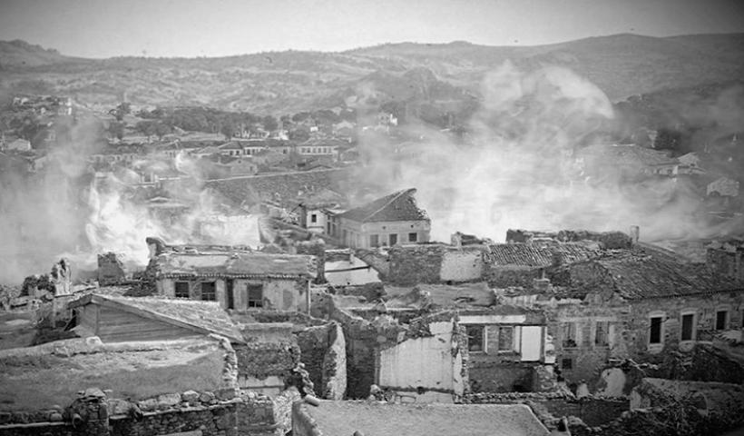 The burning of Phocaea by irregular Turkish groups in June 1914